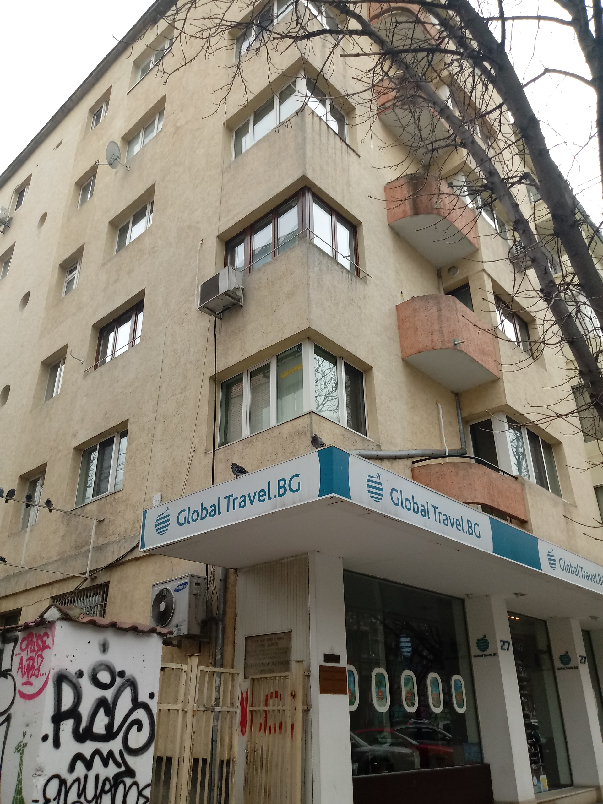 Aleksandar Zhendov home with memorial plaque, 27 Patriarch Evtimiy Blvd., Sofia